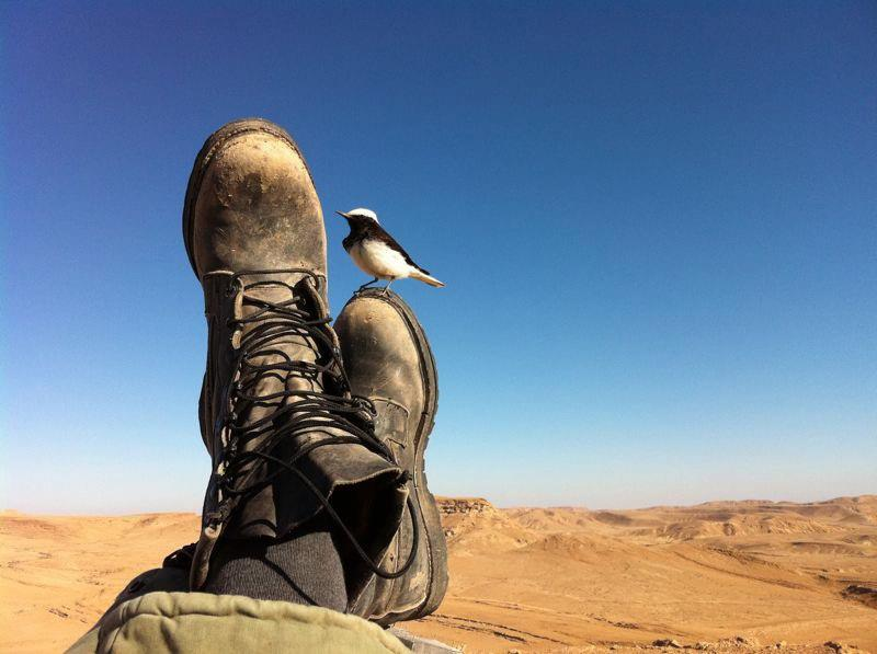 January 12th, 2012 A soldier from the Golani Brigade takes a minute to lay back and relax in a photo that perfectly captures what it's like to spend a slow day in the desert. The Israel Defense Forces Facebook The Israel Defense Forces blog Follow us on Twitter